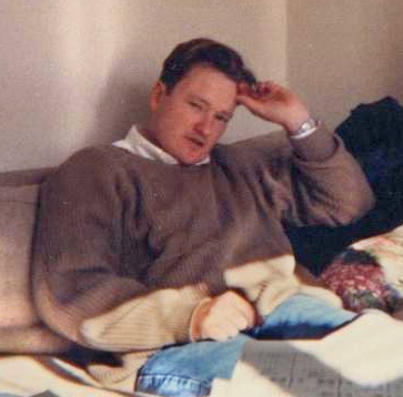 Conan O'Brien in 1992 hanging out in The Simpsons' writers offices Cropped version of Image:Conan O'Brien - Simpsons.jpg